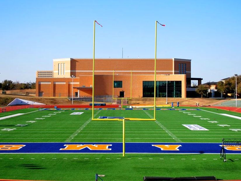 The Legrand American Football stadium at Angelo State University